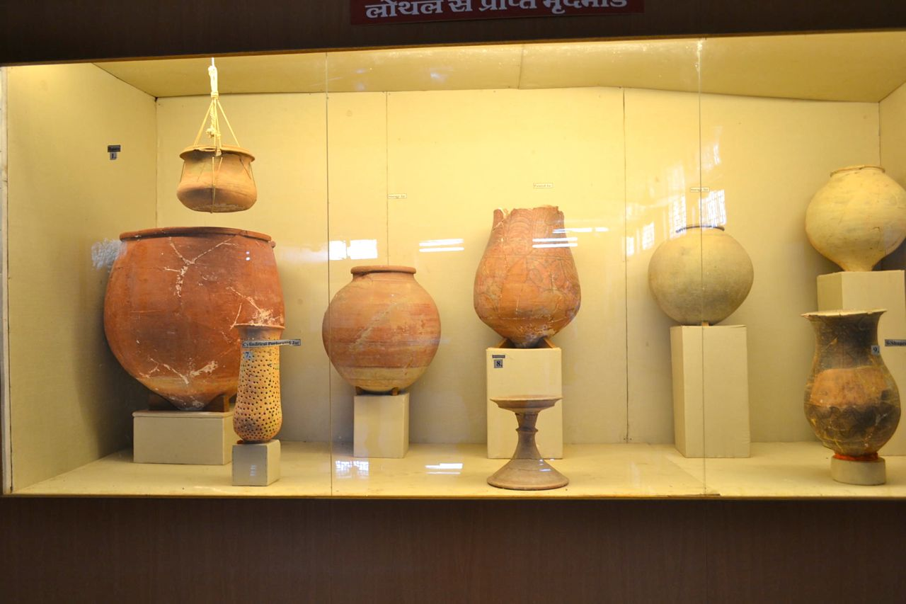 Ancient site at Lothal